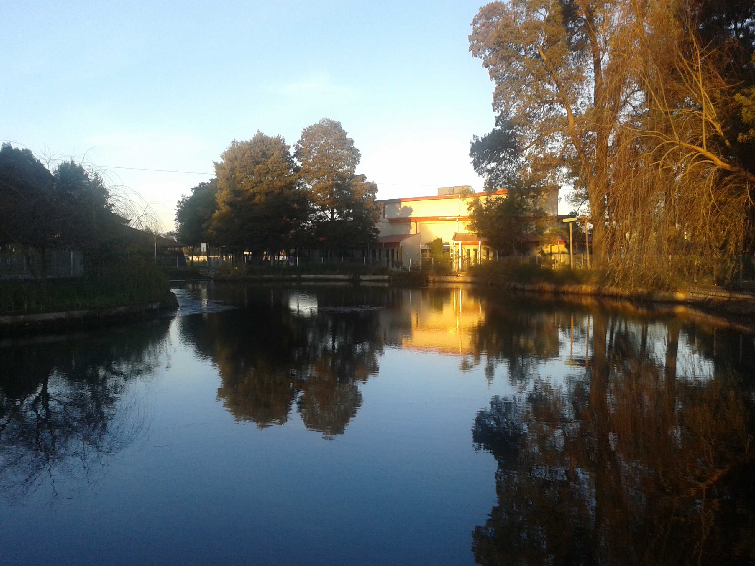 Laguna de la comuna de San Carlos,in Chile,Octava Region Bio-Bio.